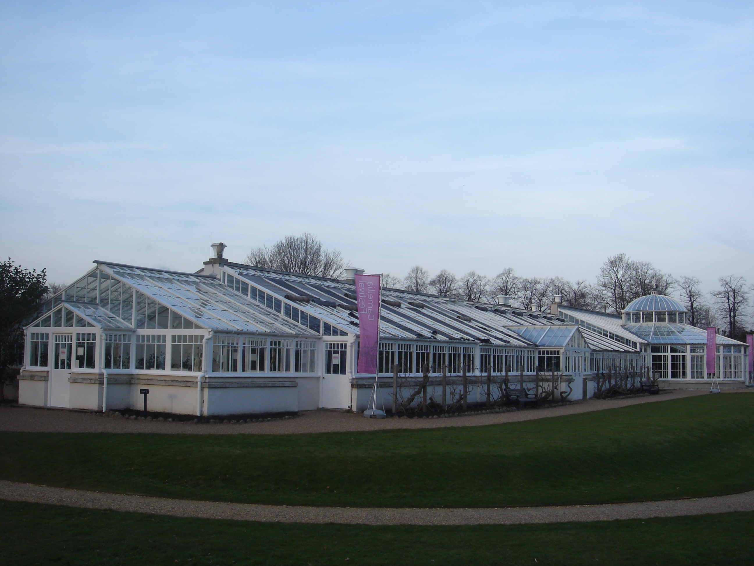 Chiswick House Conservatory